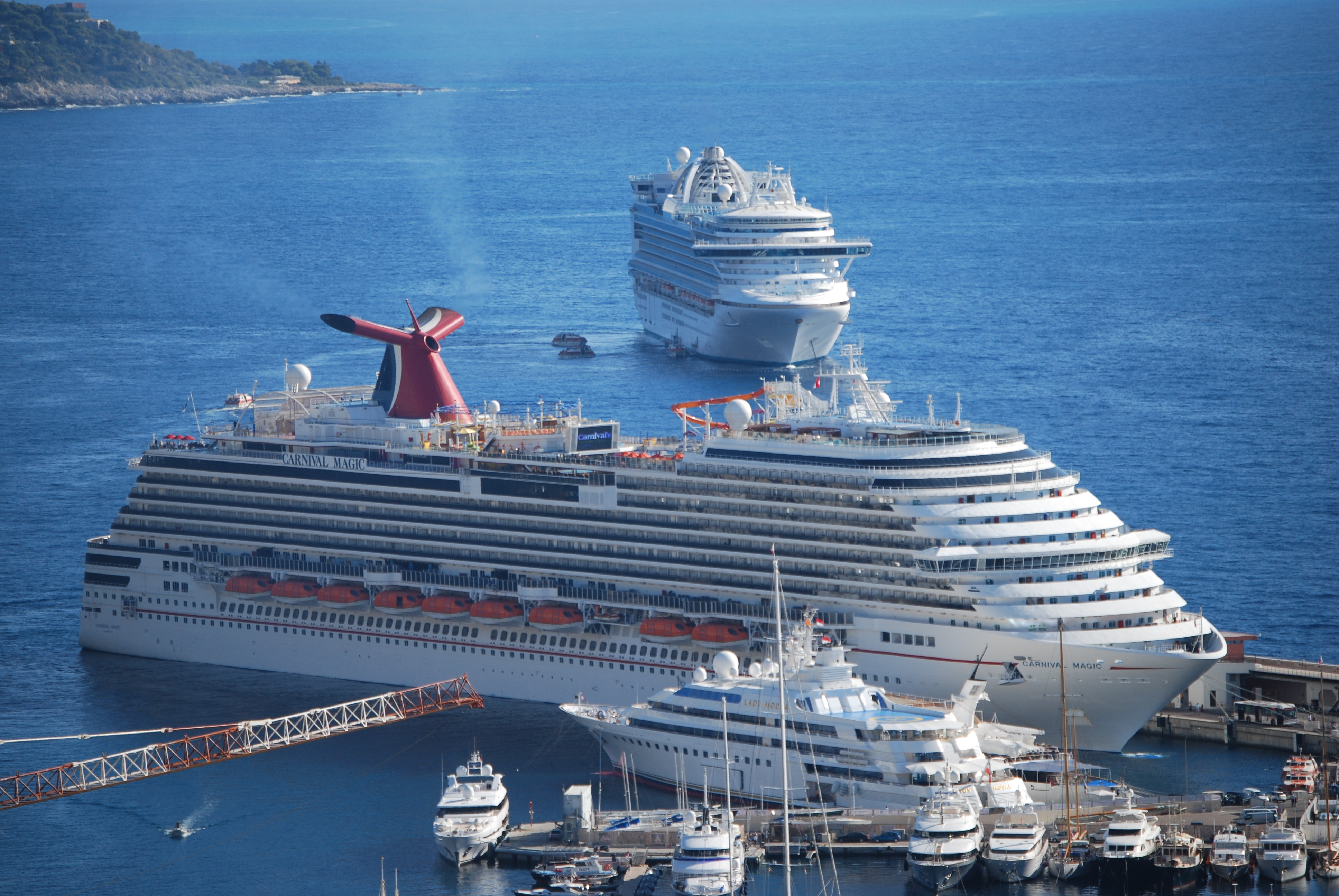 Carnival Magic docked at Monaco.